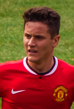 Ander Herrera playing for Manchester United in a friendly match against Real Madrid on 2 August 2014.